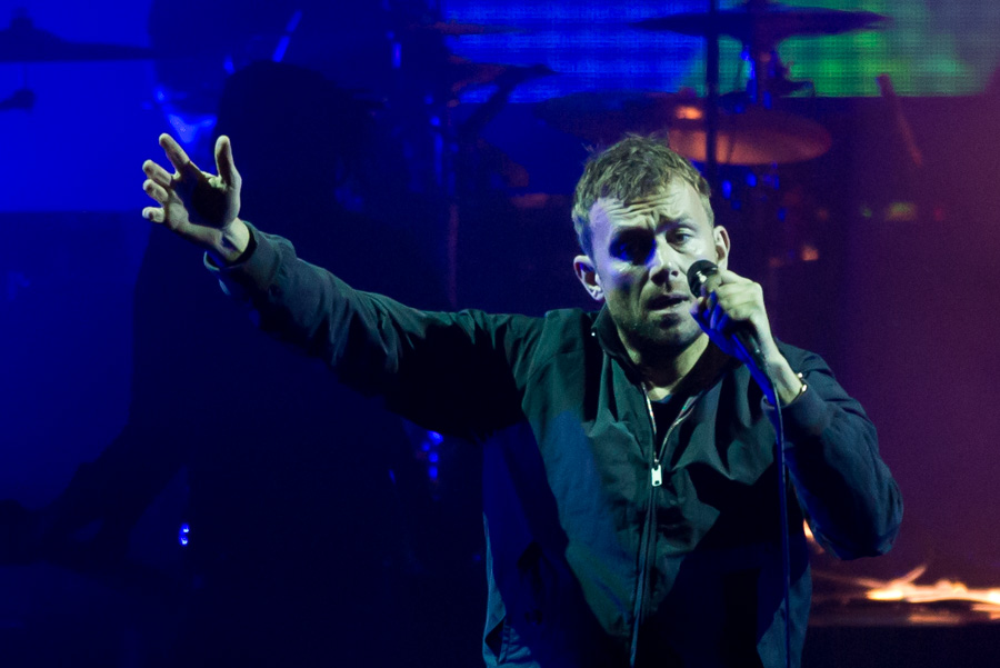 Damon Albarn with Gorillaz, Oslo Spektrum, November 5th 2017